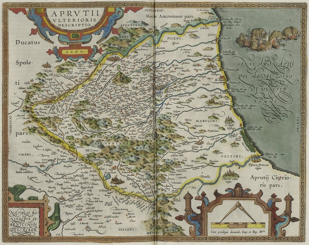 Map of Abruzzo by Abraham Ortelius. Theatrum Orbis Terrarum. London, 1606 (i.e. 1608?). Plate 84.